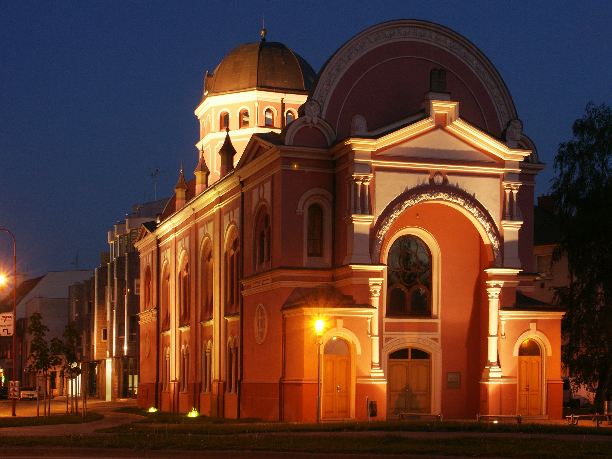 Night view of the Bedrich Benes Buchlovan Library Uherske Hradiste building (former jewish synagogue)